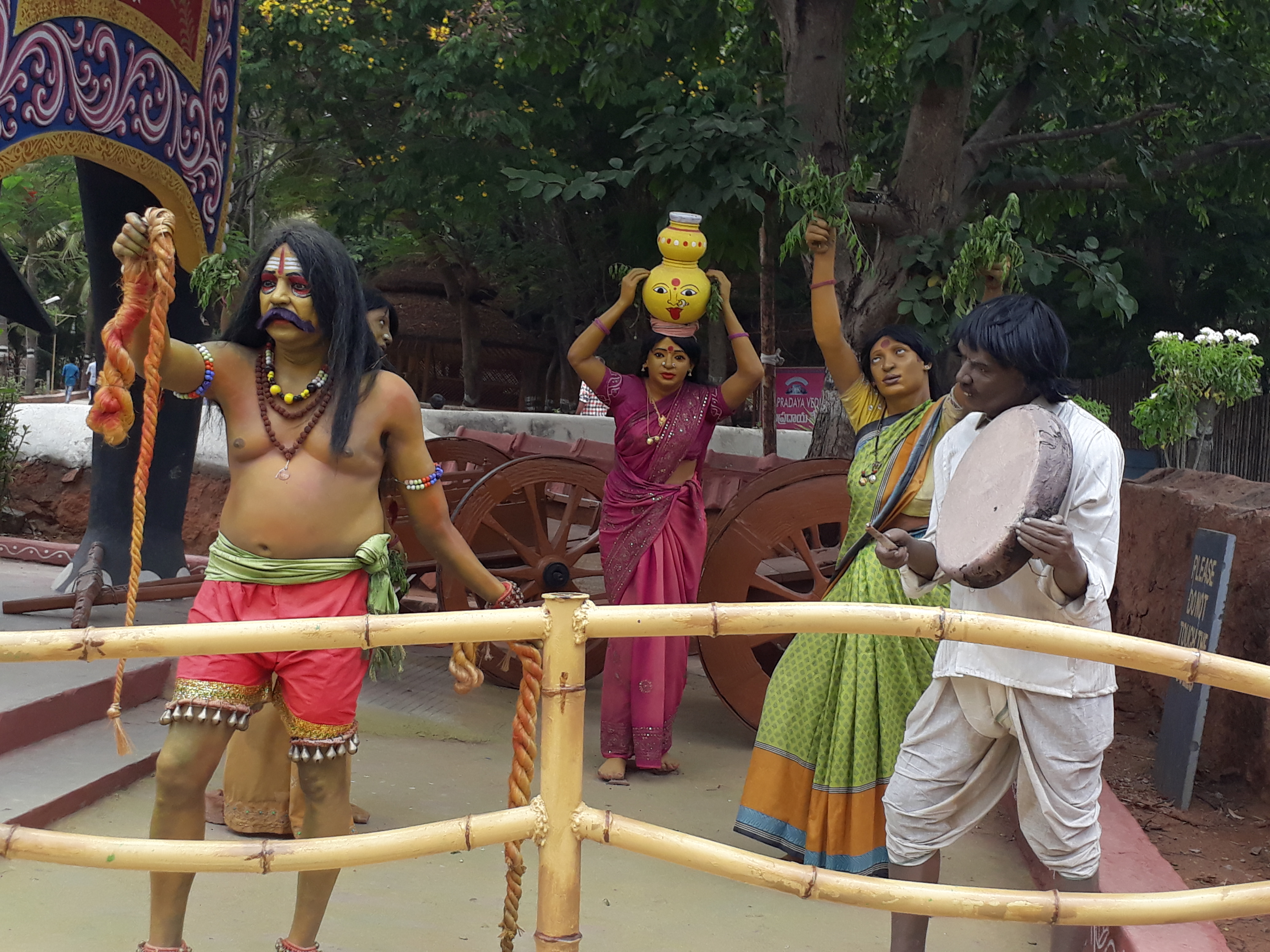 Shilpa(statues) showing Ancient indian village customs and rituals